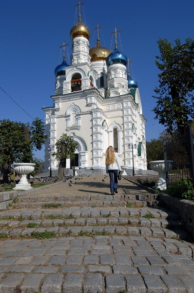 Church of Our Lady's Protection (Vladivostok)